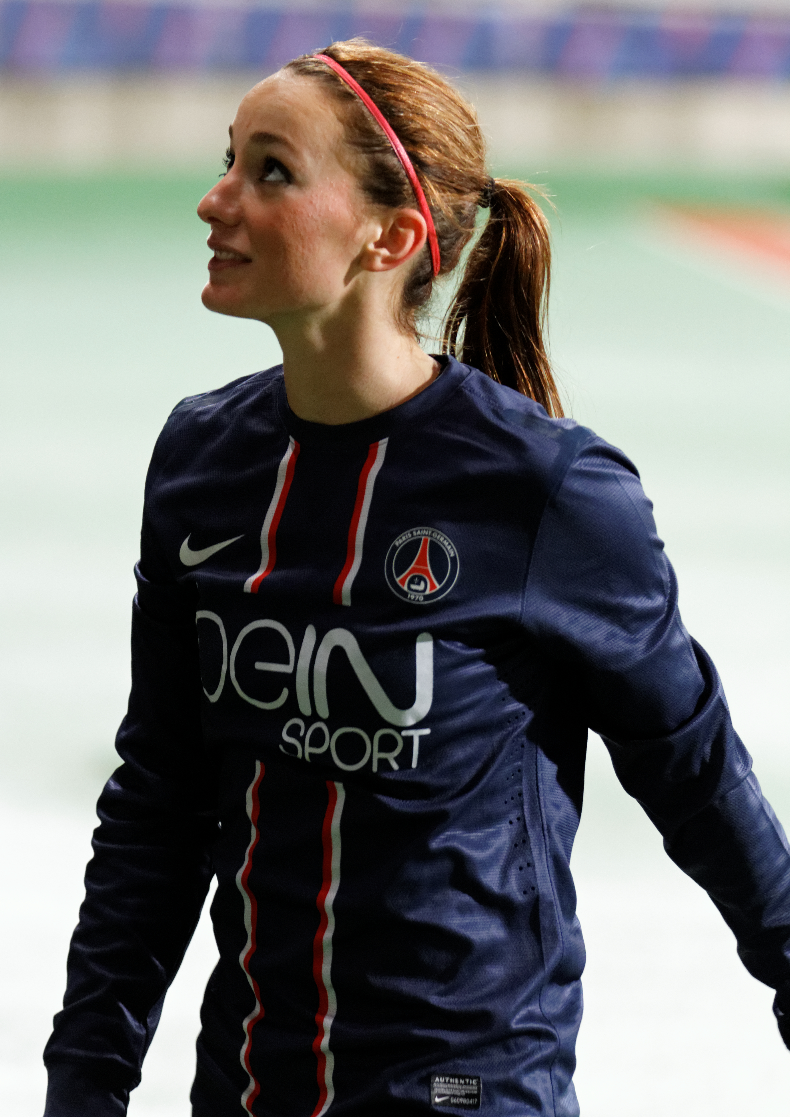 PSG-AS Saint-Étienne, december 16th, 2012. Kosovare Asllani (PSG).